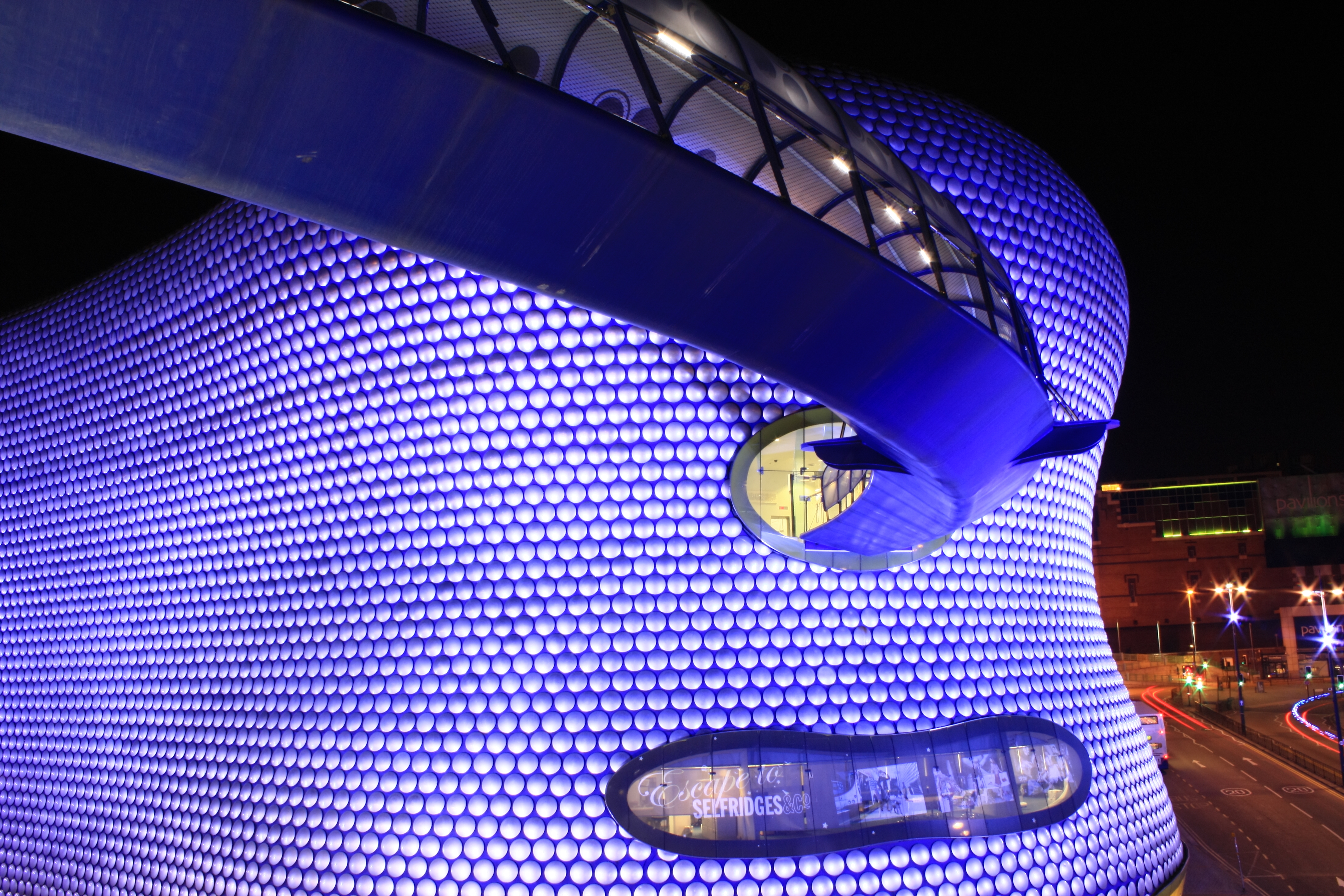 Selfridges department store, Birmingham UK